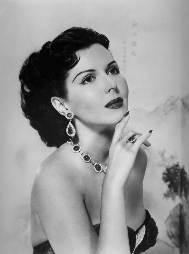 Publicity photo of Ann Miller distributed by CBS for TV variety show The Big Record.